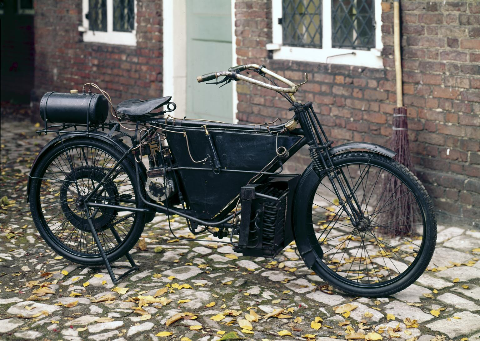 Pearson and Cox 3 hp steam bicycle, 1912. A number of these machines were made and sold by the firm of Pearson-Cox Ltd